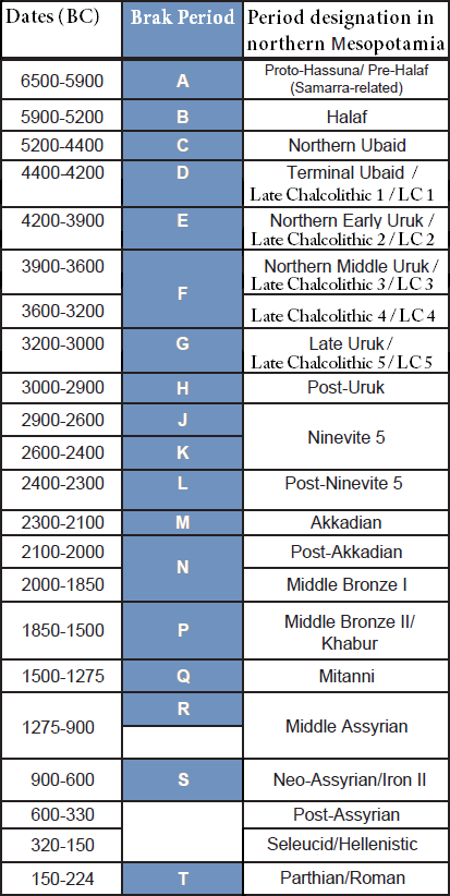 Tell brak historic periods